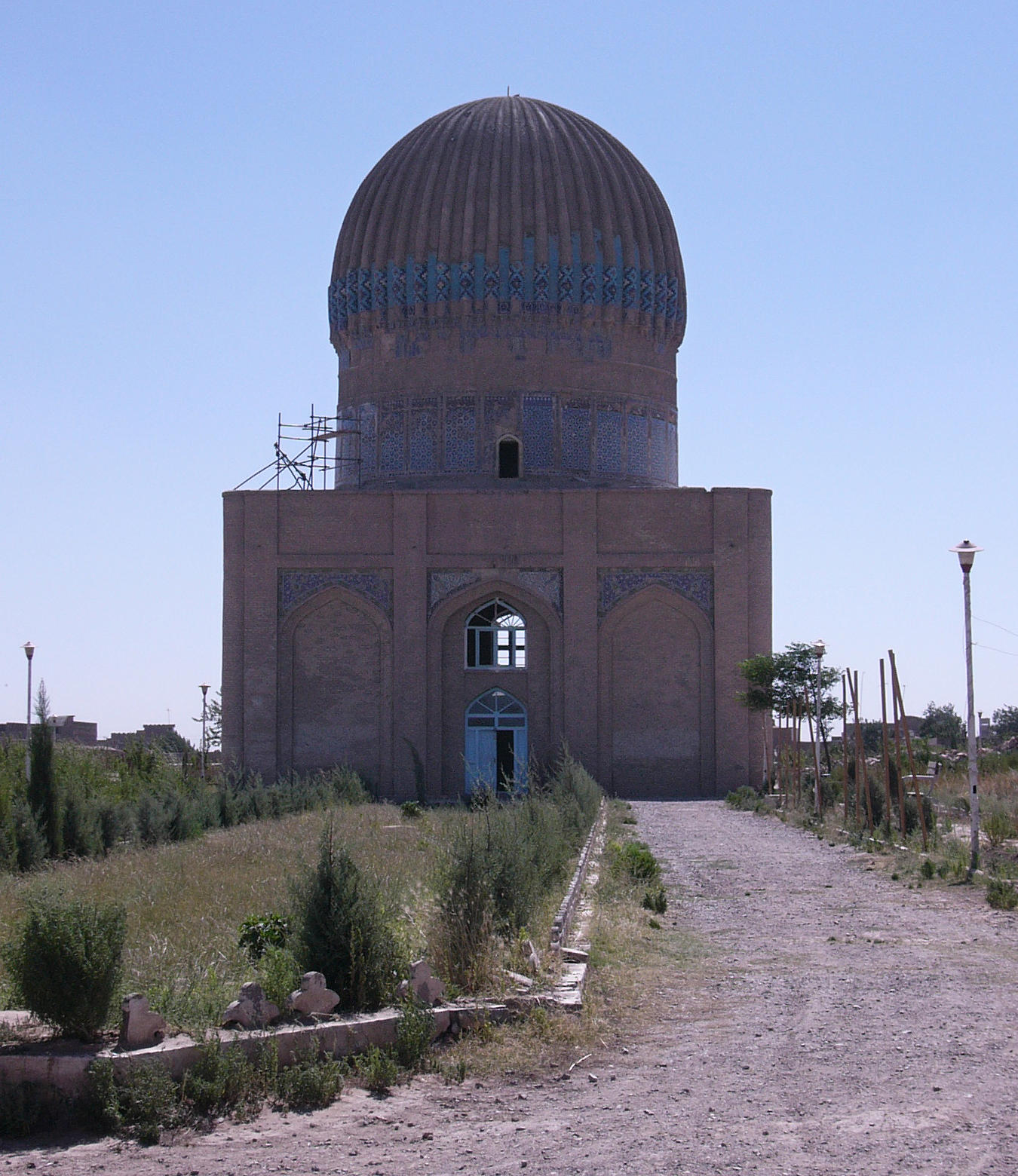 Goharshād's tomb in Herat, Afghanistan